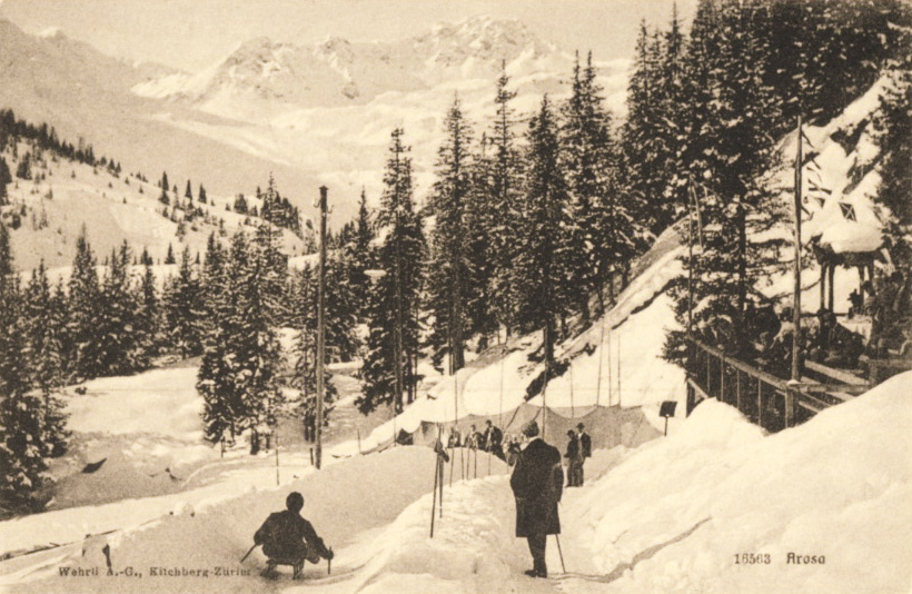 bobsleigh and luge run "Grand Hotel" at Arosa, Switzerland